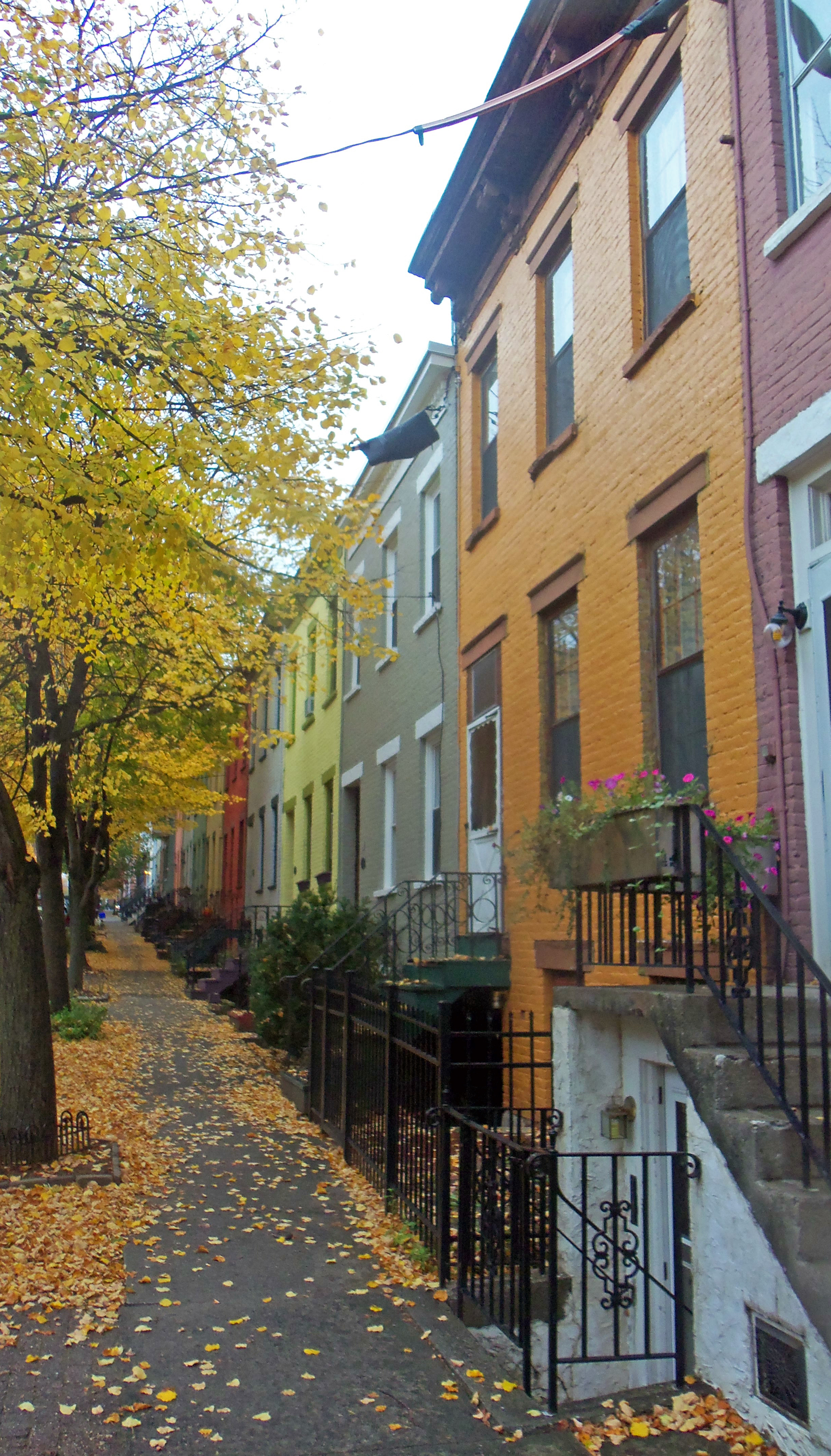 Some of the rowhouses between 182 and 216 Elm Street in Albany, NY, USA, all contributing properties to the Center Square/Hudson–Park Historic District.